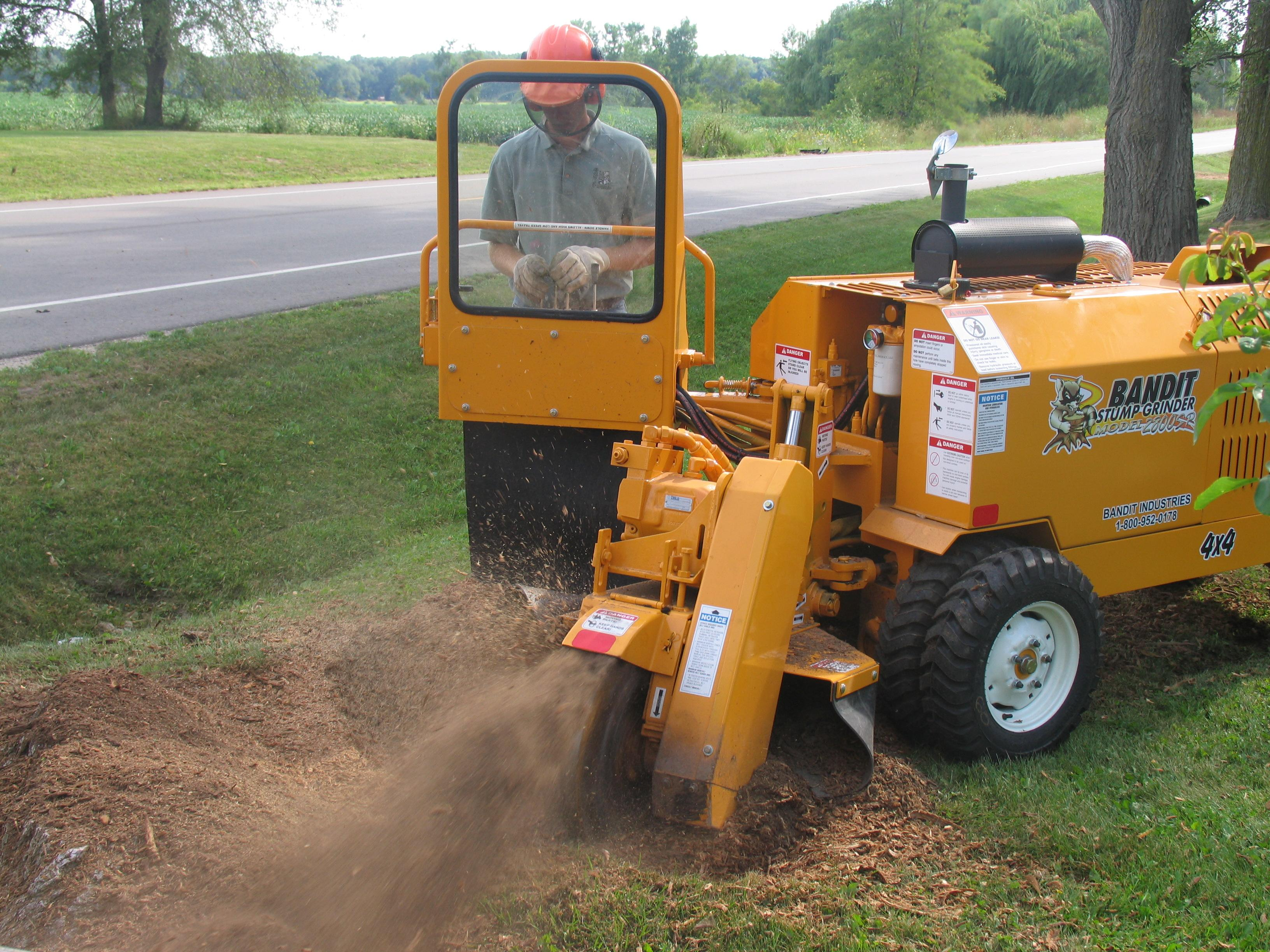 Bandit Industries Model 2800SP, a 63 HP back yard stump grinder